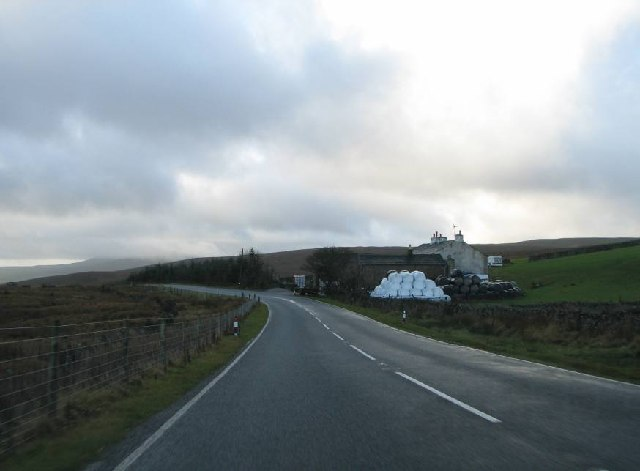 Newby Head Farm. This must be one of the bleakest places to farm in Britain. This is the road from Hawes via Ribblehead to Ingleton and this farm is at very close to 1400 feet/430 metres ASL. It is approximately 6 miles in the middle of nowhere from the nearest village of any type.